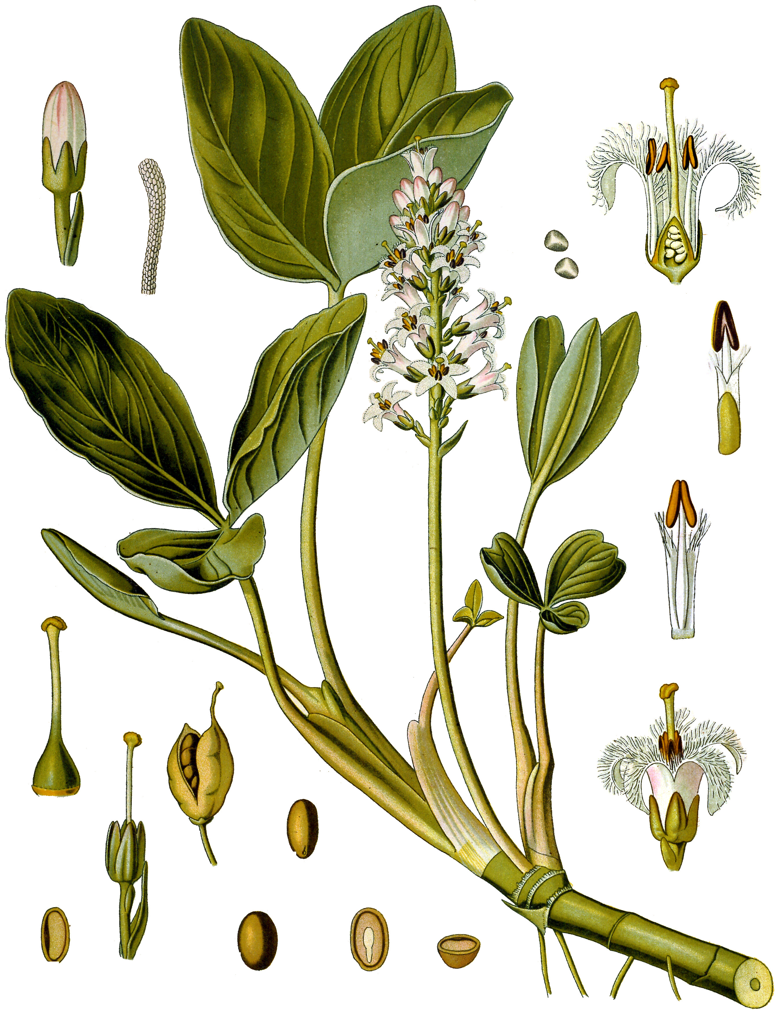 Menyanthes trifoliata illustration.